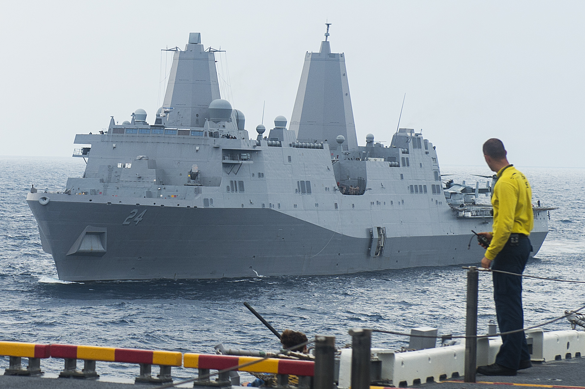 The U.S. Navy amphibious transport dock ship USS Arlington (LPD-24) participates in training exercises with the amphibious assault ship USS Iwo Jima (LHD-7). Iwo Jima was underway conducting amphibious integration exercises.